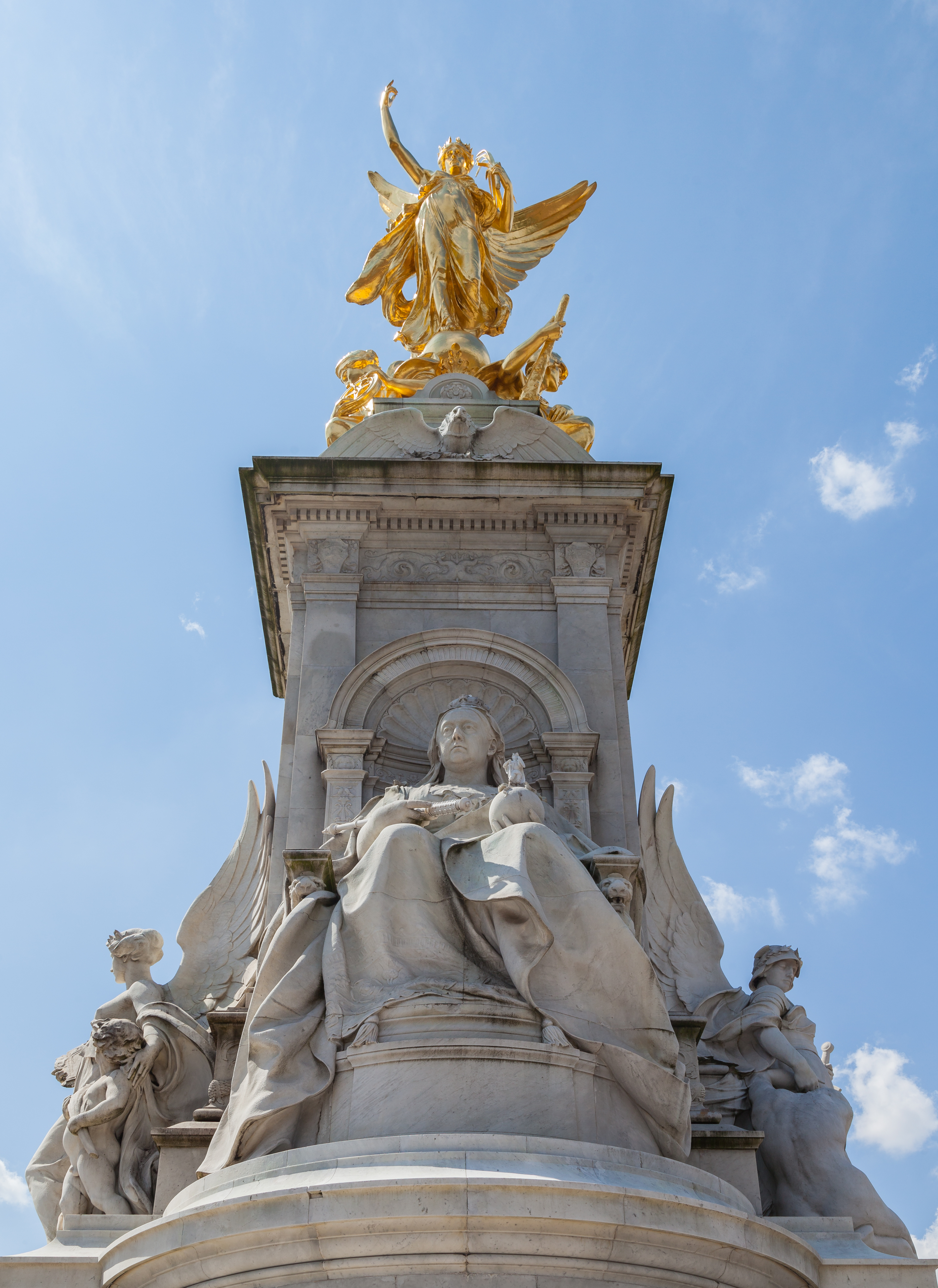 Victoria Memorial, London, England